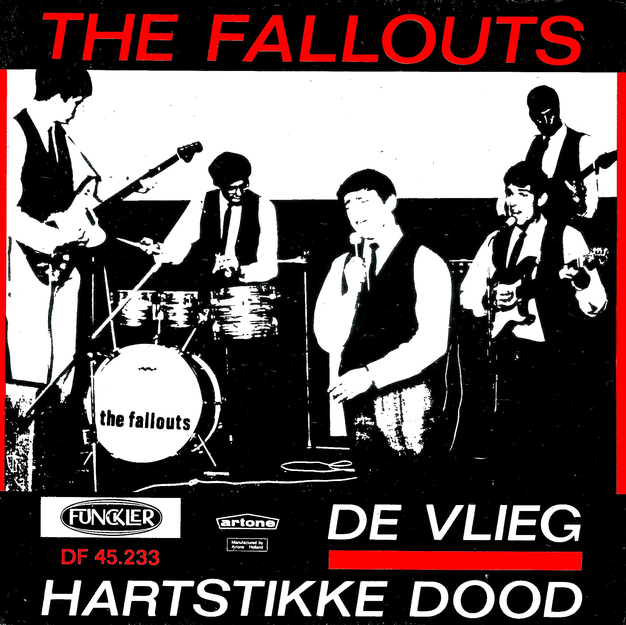 Picture Hotel Royal (Bosje) Valkenswaard 1966.